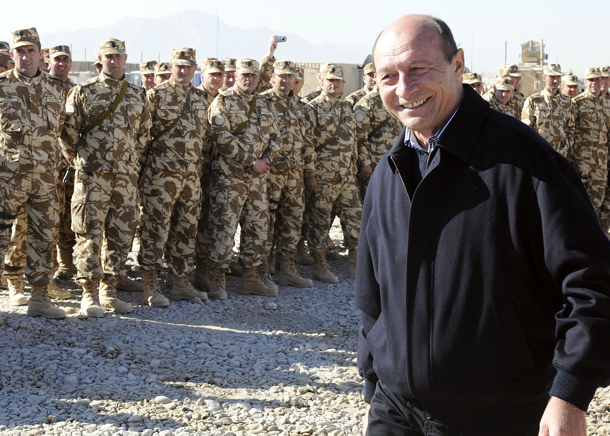 Romanian President Traian Basescu meets today with Romanian soldiers at Forward Operating Base Apache near Qalat in the Zabul province as a visit to hear from his near 1,650 troops throughout Afghanistan. Romania joined NATO in 2004 and has since been a player in operations in the Middle East and Southwest Asia. 16th Mobile Public Affairs Detachment Photo by Senior Airman Daryl Knee Location:KANDAHAR AIR FIELD, AF Date Taken:11.30.2010 Related Photos